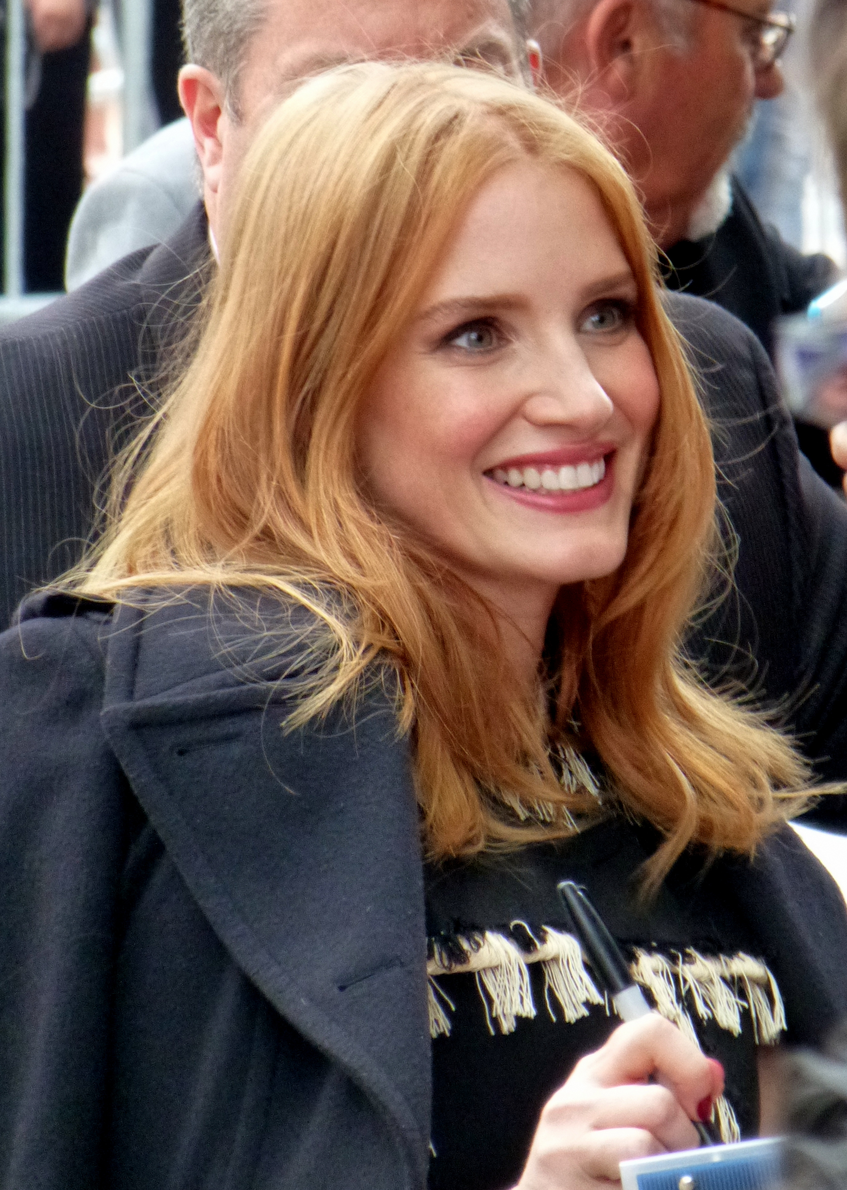 Jessica Chastain at press conference for the Martian, 2015 Toronto Film Festival